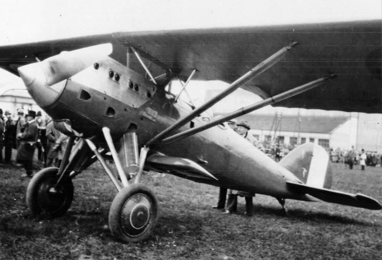 Amiot S.E.C.M. 110 C.1 photo from NACA Aircraft Circular No.97